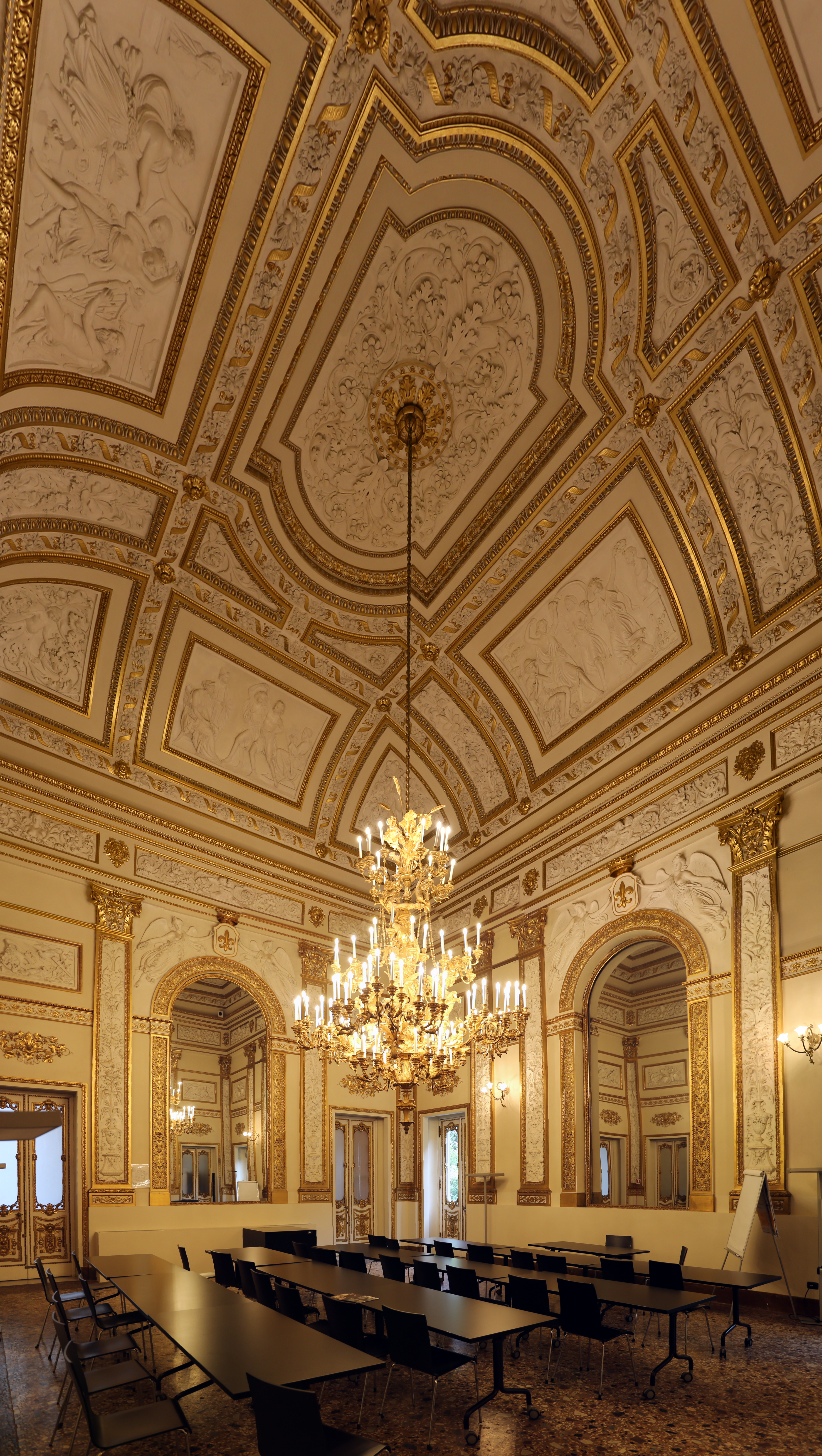 Villa Favard - Interior